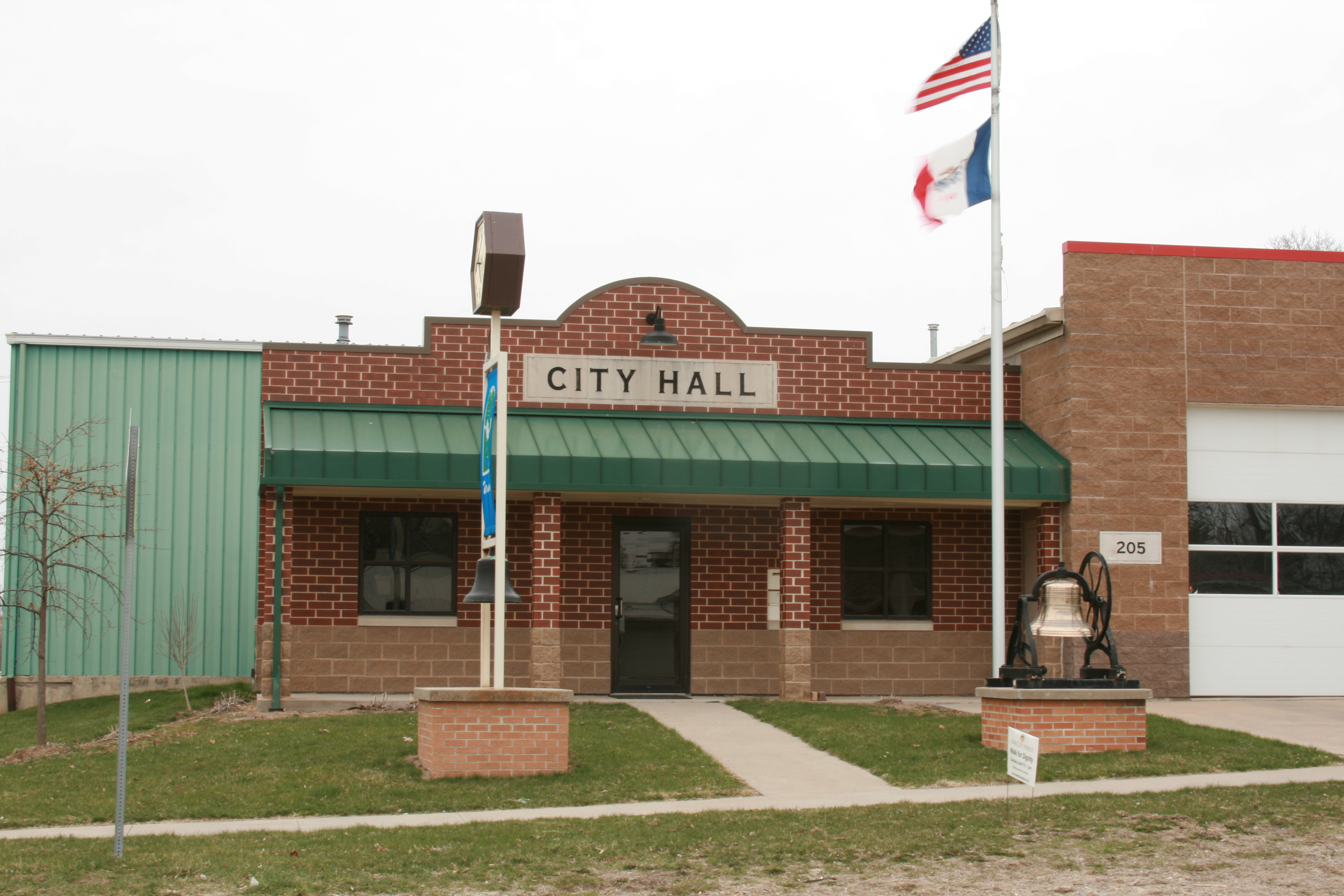 City Hall located in Oxford, Iowa